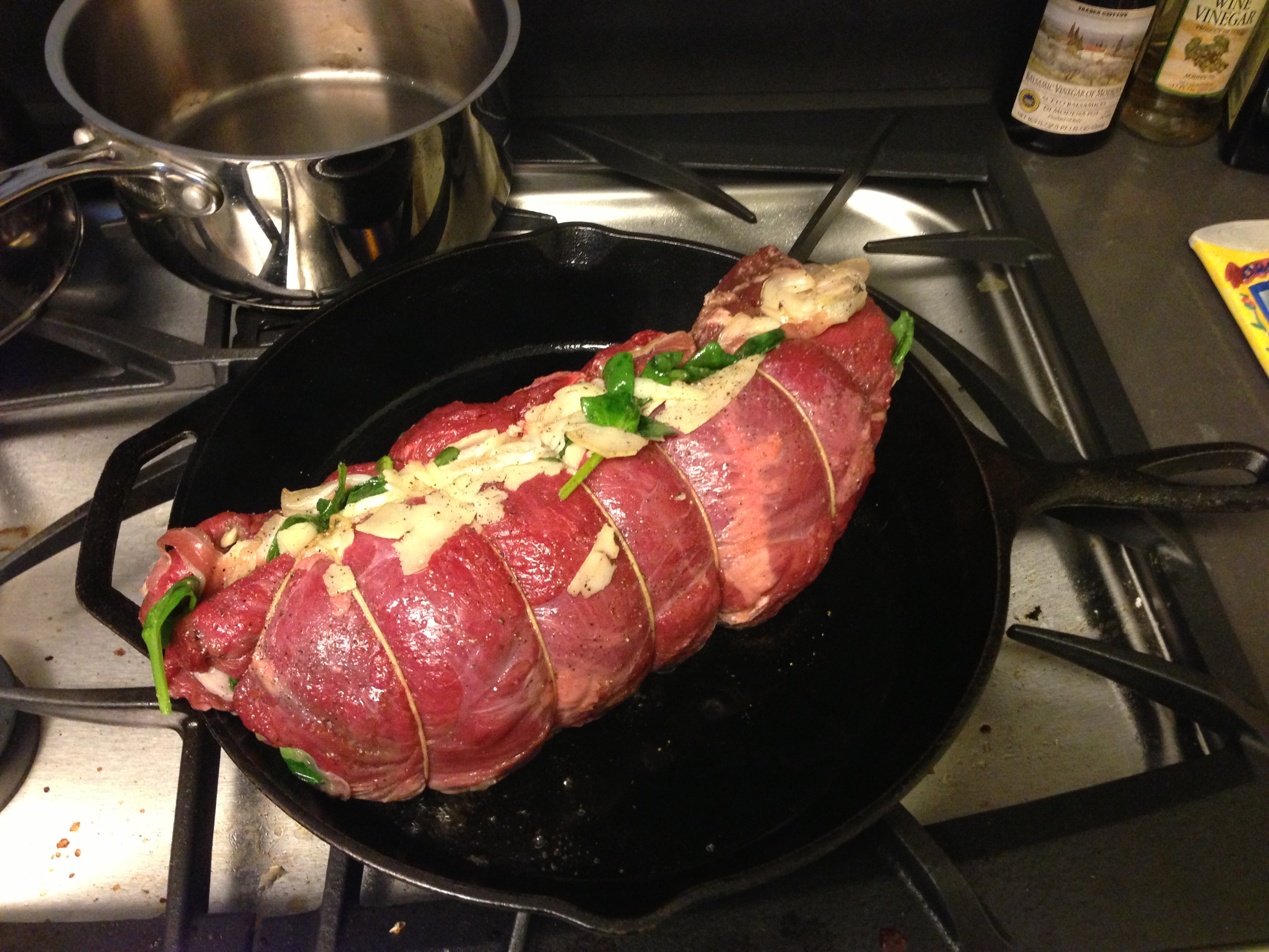 Flank roulade with prosciutto, provolone, spinach, and garlic stuffing ready for browning.